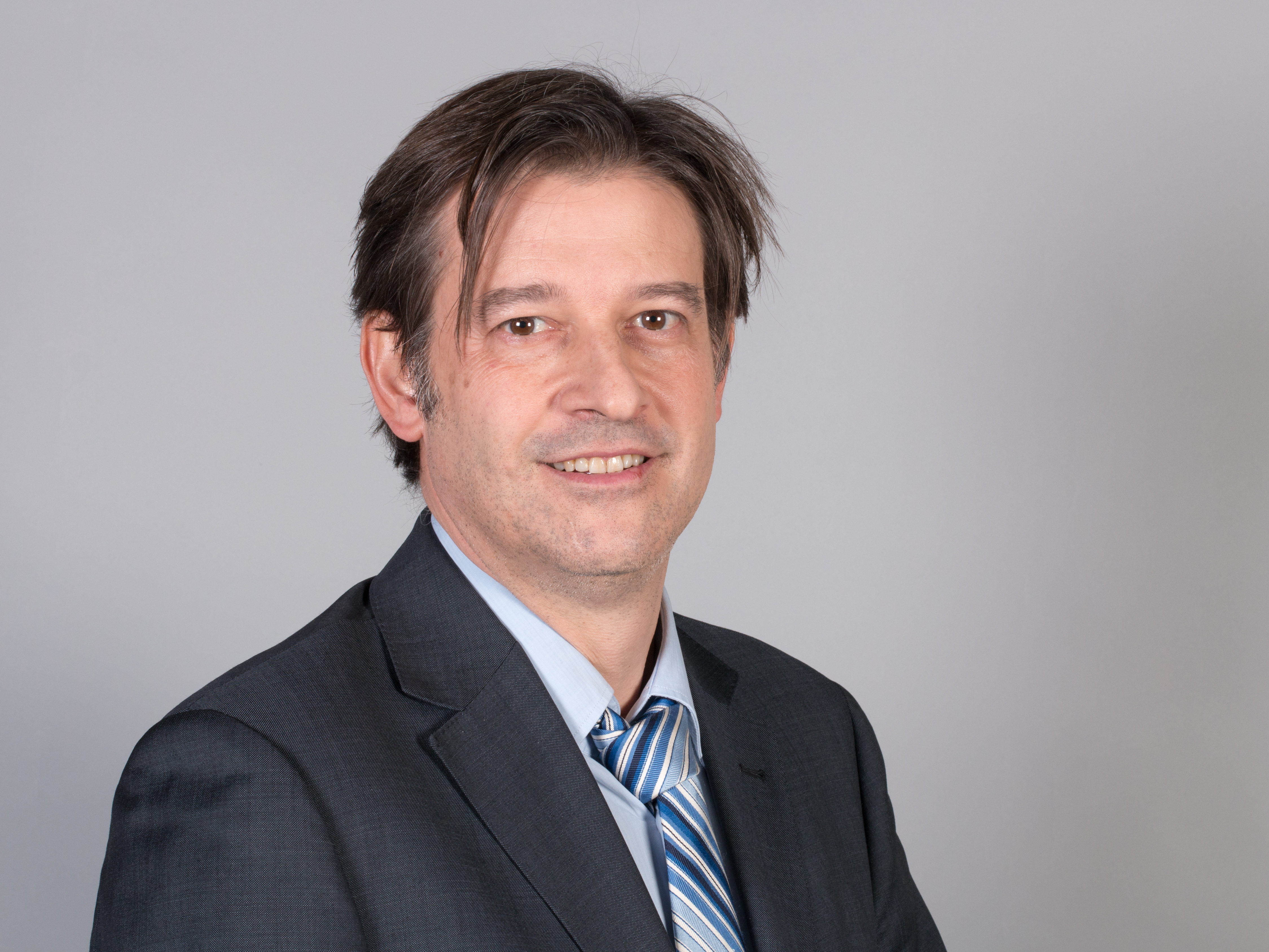 Javier Moreno Sánchez, PSOE, Spanish Member of the European Parliament